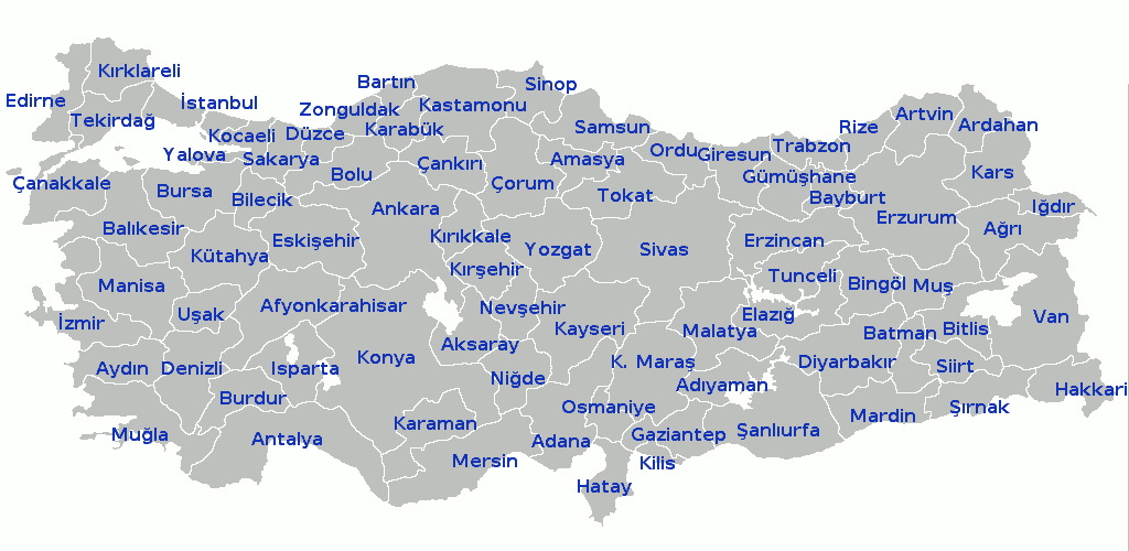 Map of Republic of Turkey's provinces.